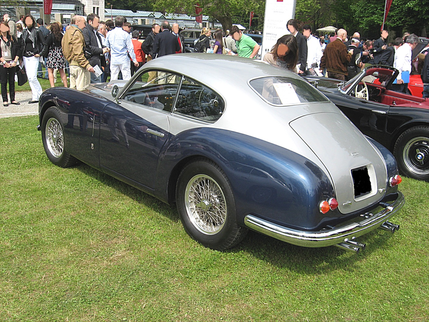 Subject:Ferrari 166 Inter Berlinetta